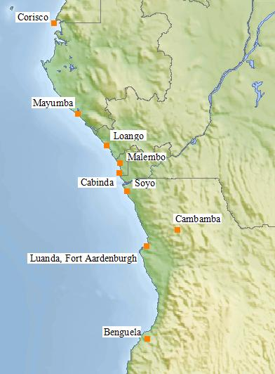 Former Possessions of the WIC at the Luango-Angolacoast.